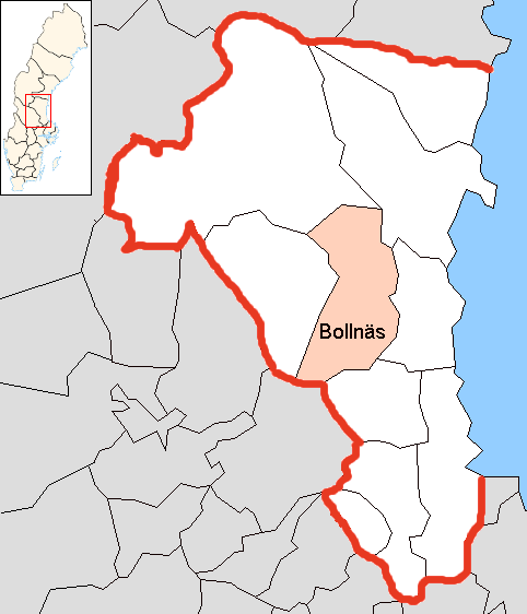 Bollnäs Municipality in Gävleborg County Designd by me, based on Image:Gävleborg County.png